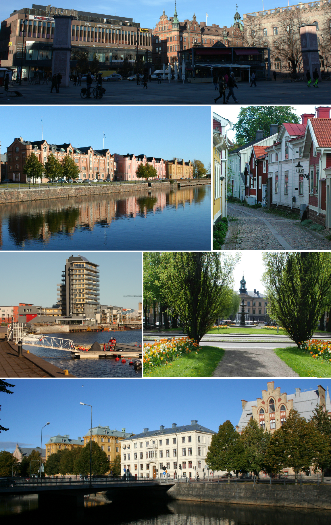 Montage of Gävle, Sweden. Pictures mostly taken in 2013.